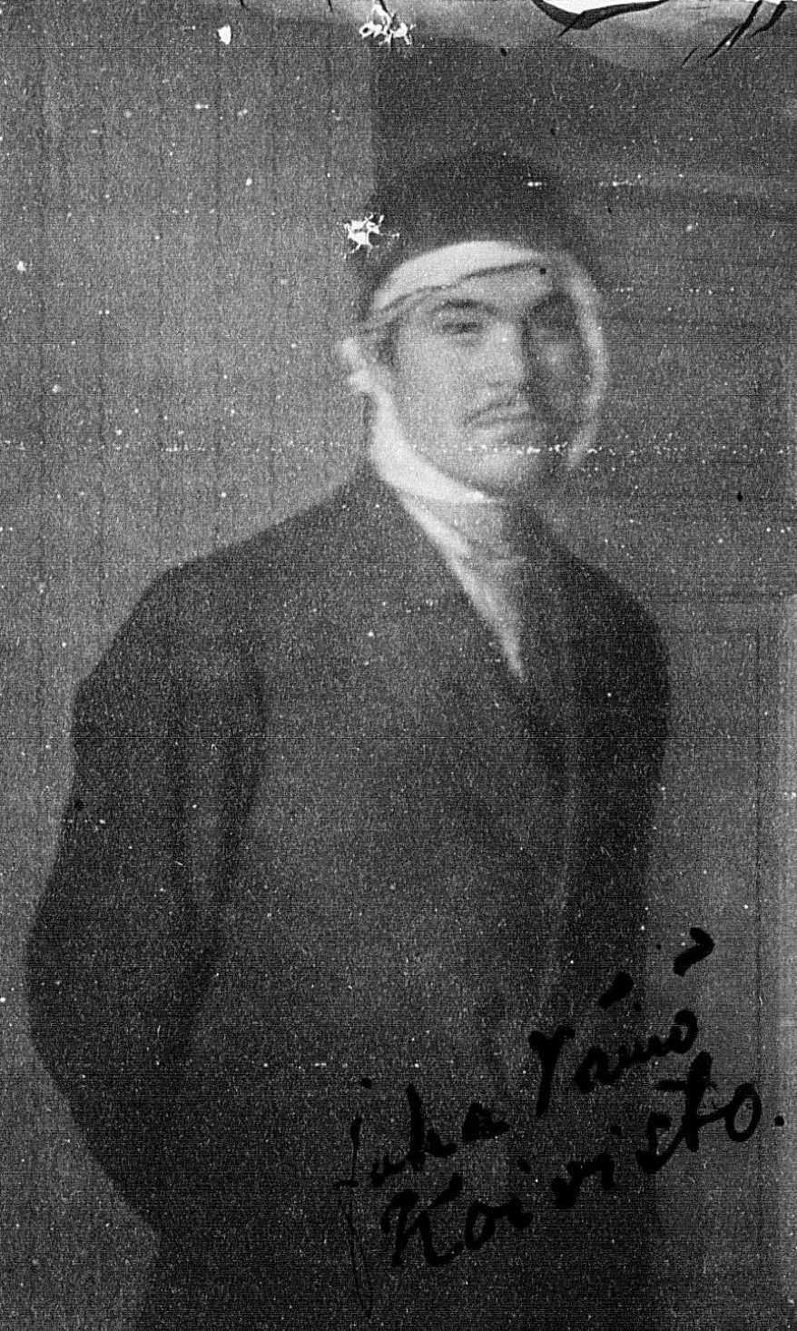 Väinö Koivisto, head of red guards in Suodenniemi in 1918